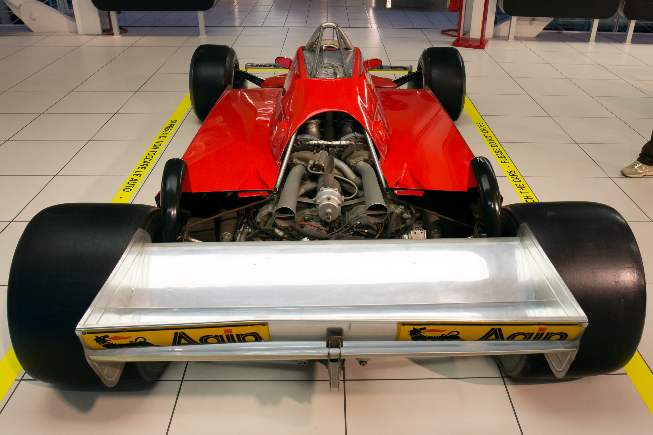 Ferrari 126CK